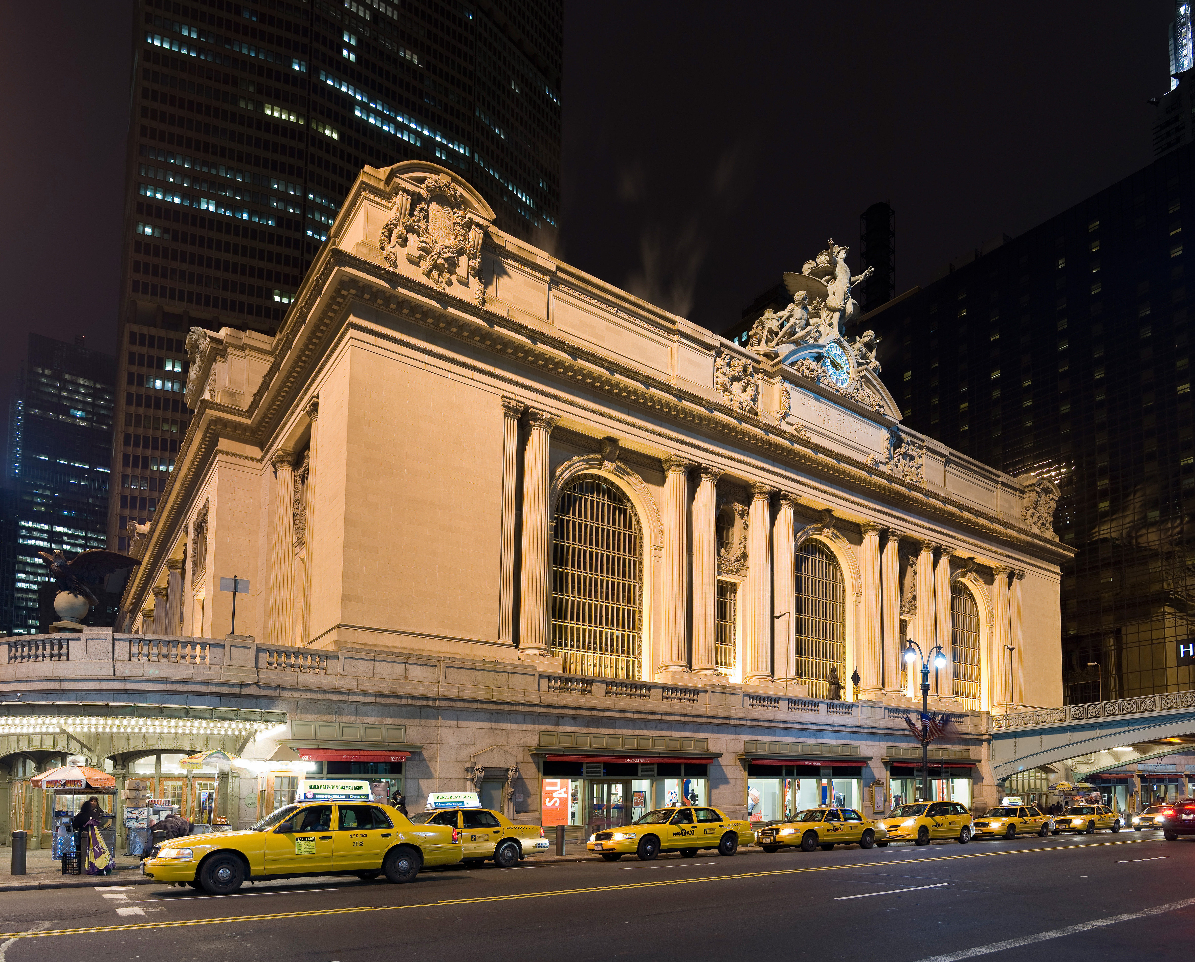 Grand Central terminal in New York, NY